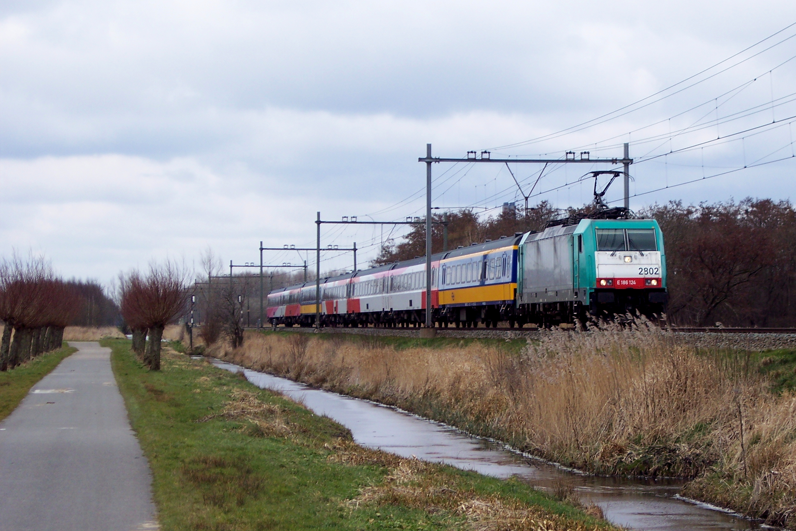 Intercity train IC 1233 on its way from The Hague HS to Brussels-South